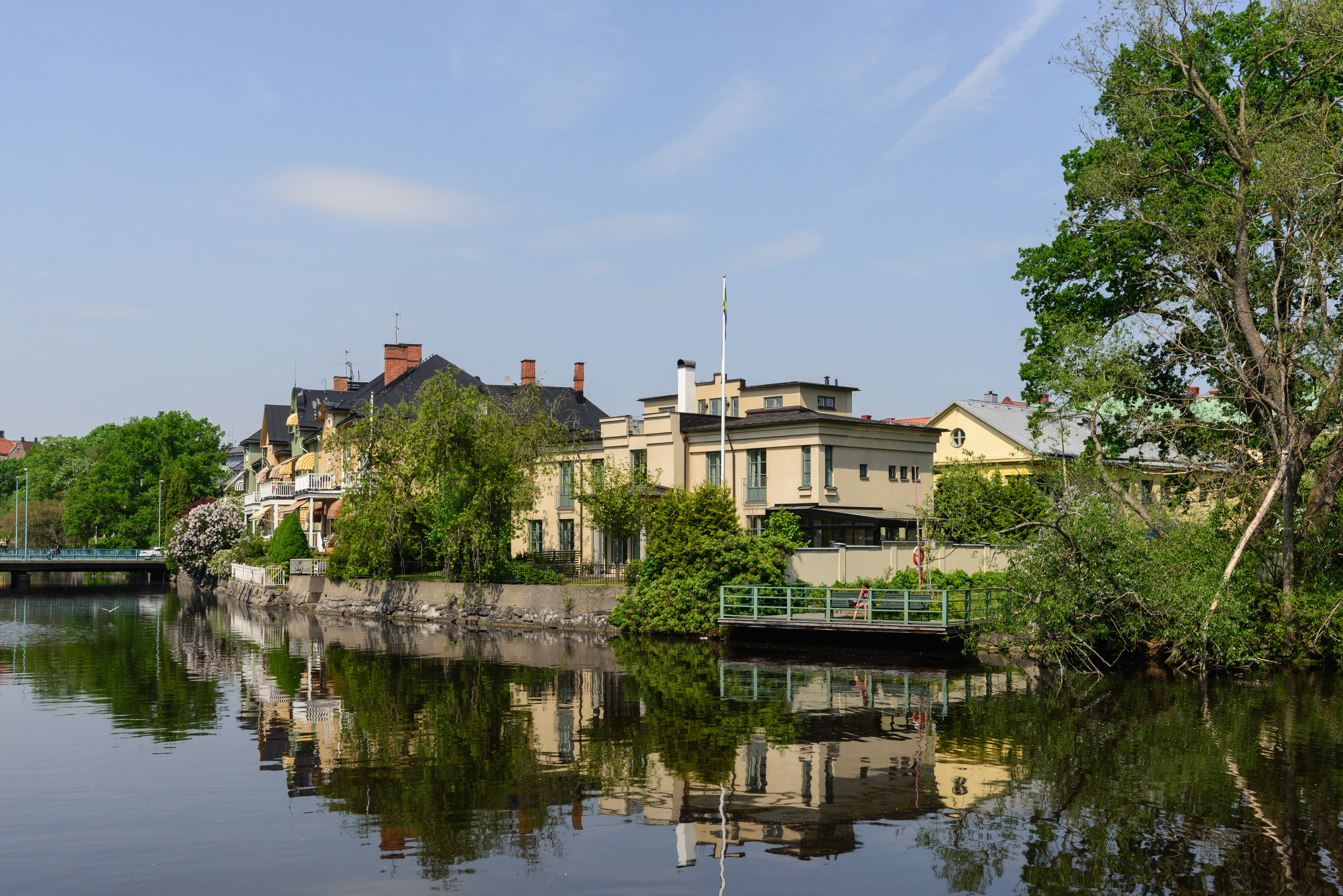 Buildings in Choisie, a small district in Örebro, next to river Svartån.